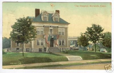 Postcard: "The Hospital, Norwalk, Conn" circa 1910-1920 Description: "Antique (Vintage) Original postcard, Standard Size, 3.5" by 5.5", Litho, 1900-1910s, VG, PU, hole in top edge, Publisher: Valentine & Sons Pub. Co.